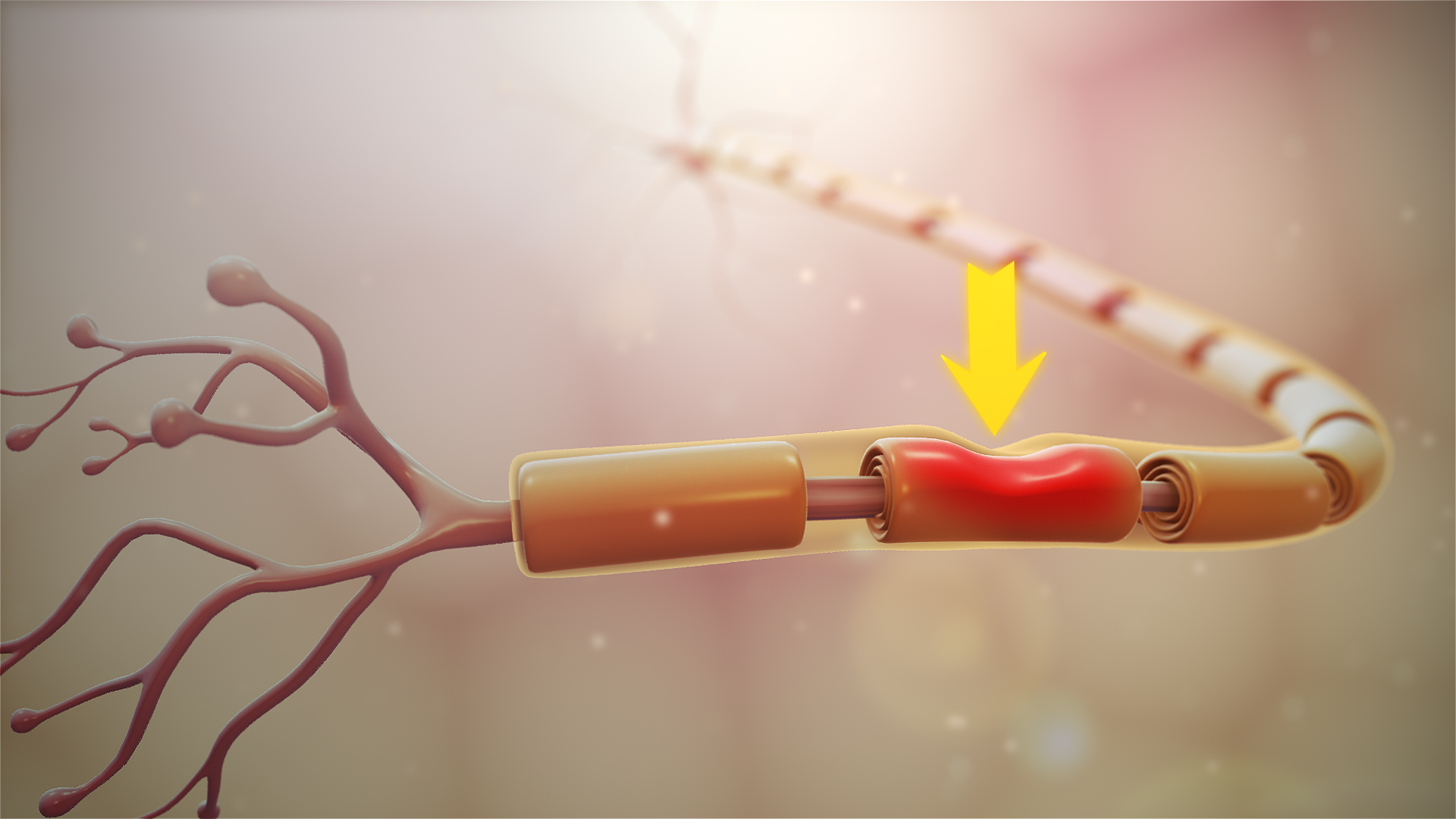 In Neurapraxia the myelin sheath is damaged but the axon remains intact.